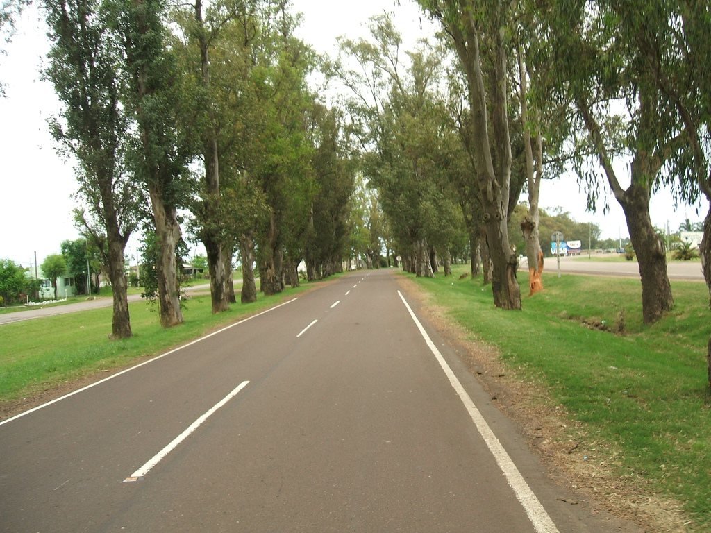 Road in Salto, northern Uruguay.